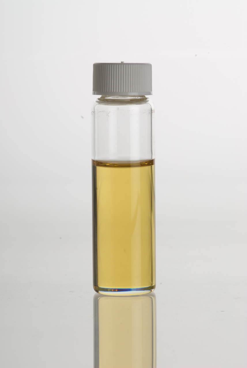 Hyssop (Hyssopus officinalis) Essential Oil in clear glass vial